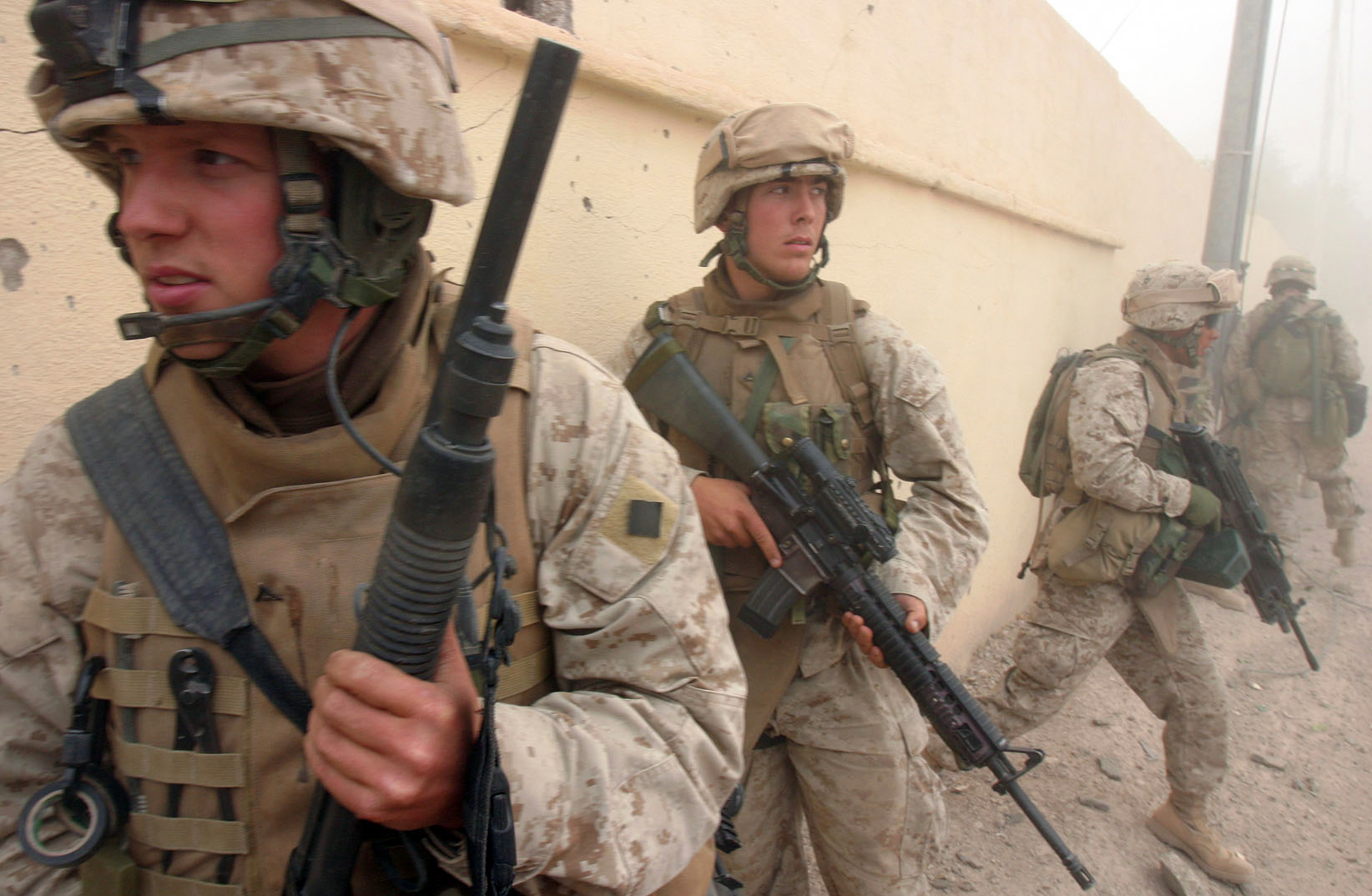 STEEL CURTAIN — U.S. Marine Corps Lance Cpl. Steven L. Phillips stands with his shotgun ready to advance if called, near Camp Al Qa'im, Iraq, Nov. 15, 2005. Behind him in support is Lance Cpl. Paul J. Kolkhorst. Both Marines are anti-tank assaultmen and participated in Operation Steel Curtain. U.S. Marine Corps photo